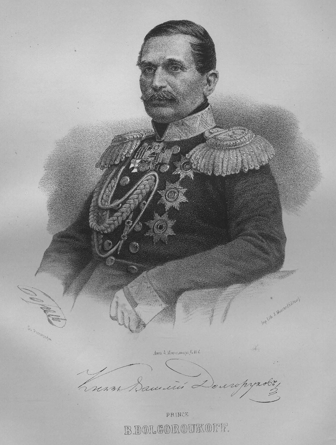 Dolgorukov, Vasily Andreyevich (1803 -1868) russian General.